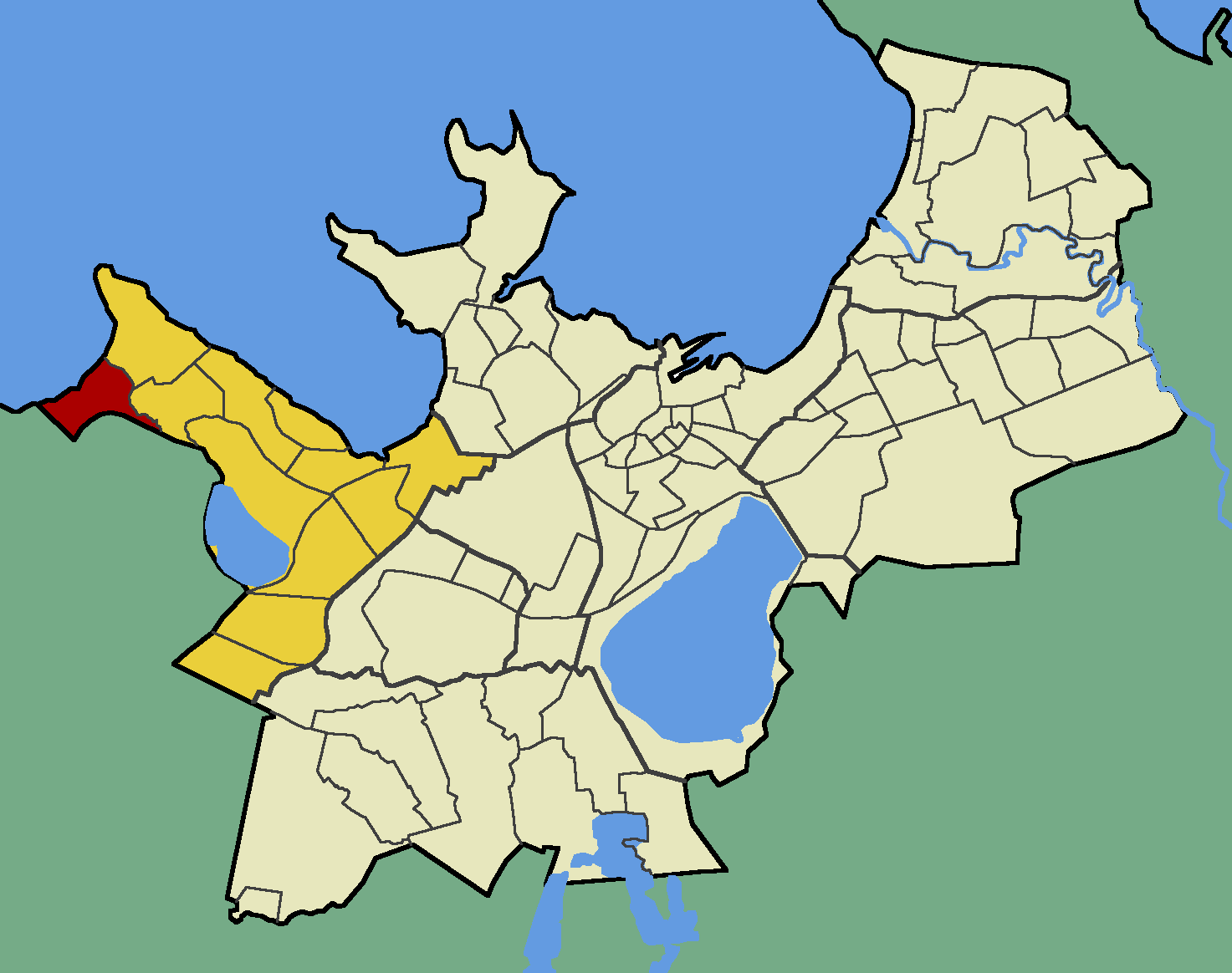 Map of Tallinn (Estonia) with borders of the quarters, Haabersti district and Tiskre quarter emphasised